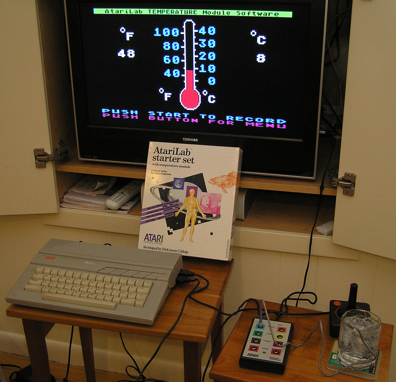 The AtariLab Starter Set came with the adaptor interface, a temperature probe, and software. The system is being used to measure the temperature of a glass of water.